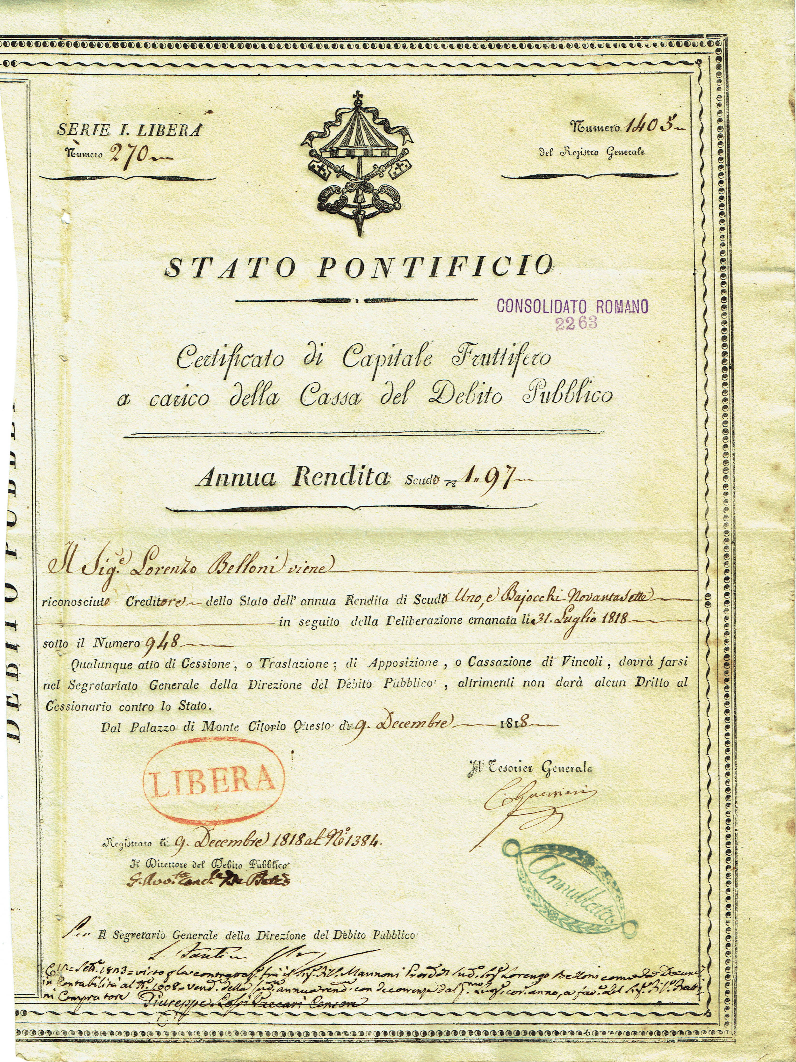 Certificate of the Papal States, issued 9. December 1818